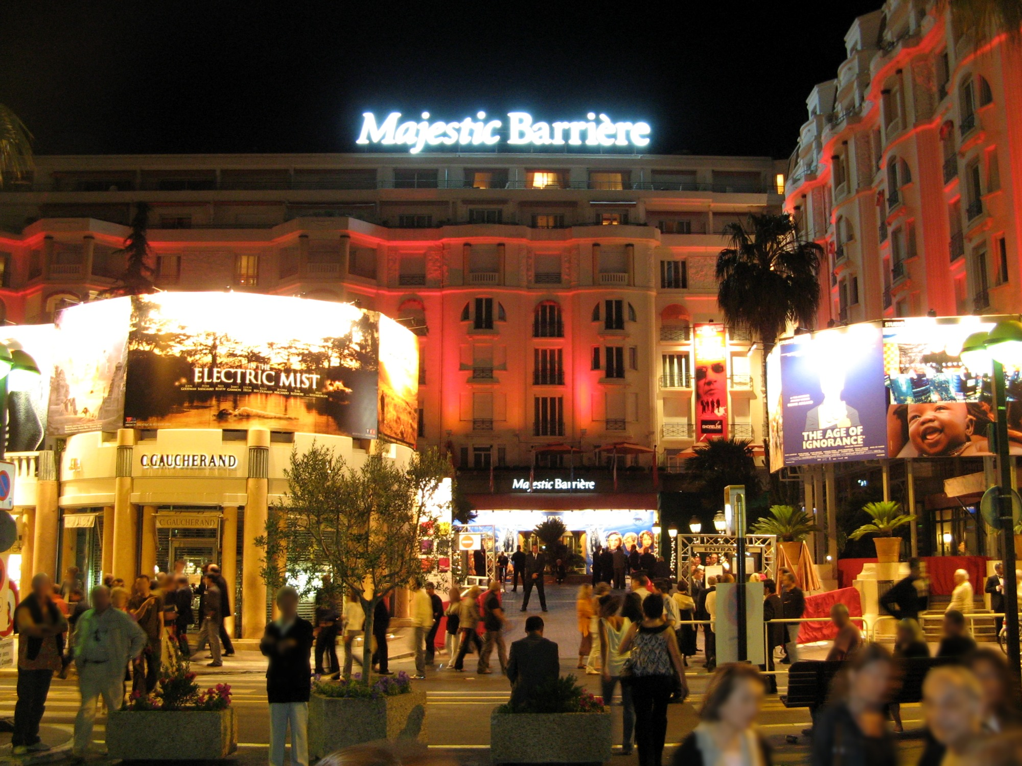 Majestic Barrière Hotel during Cannes Film Festival 2007